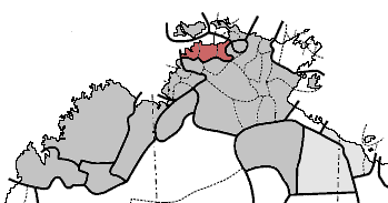 Darwin Region languages (Harvey). Darwin Region languages (red), among other non-Pama–Nyungan languages (grey).